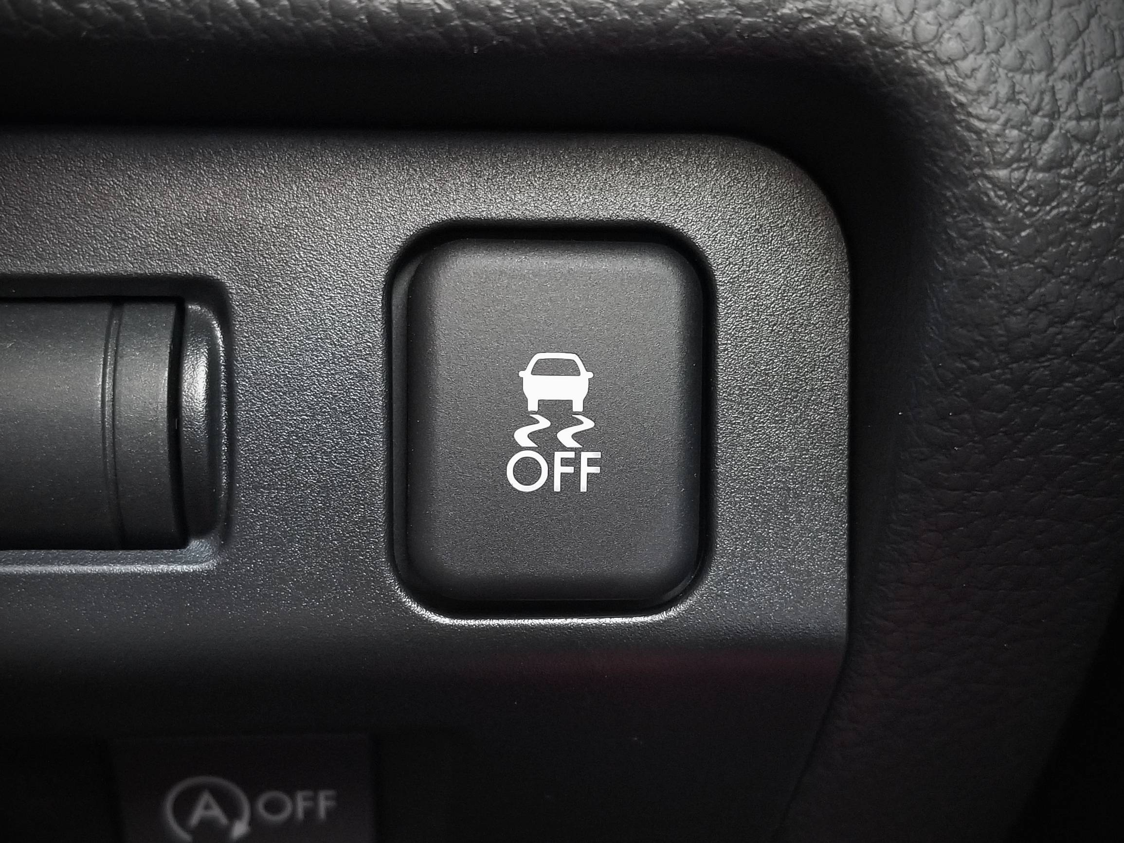 2015 Subaru XV 2.0i VDC (Vehicle Dynamics Control) OFF switch.